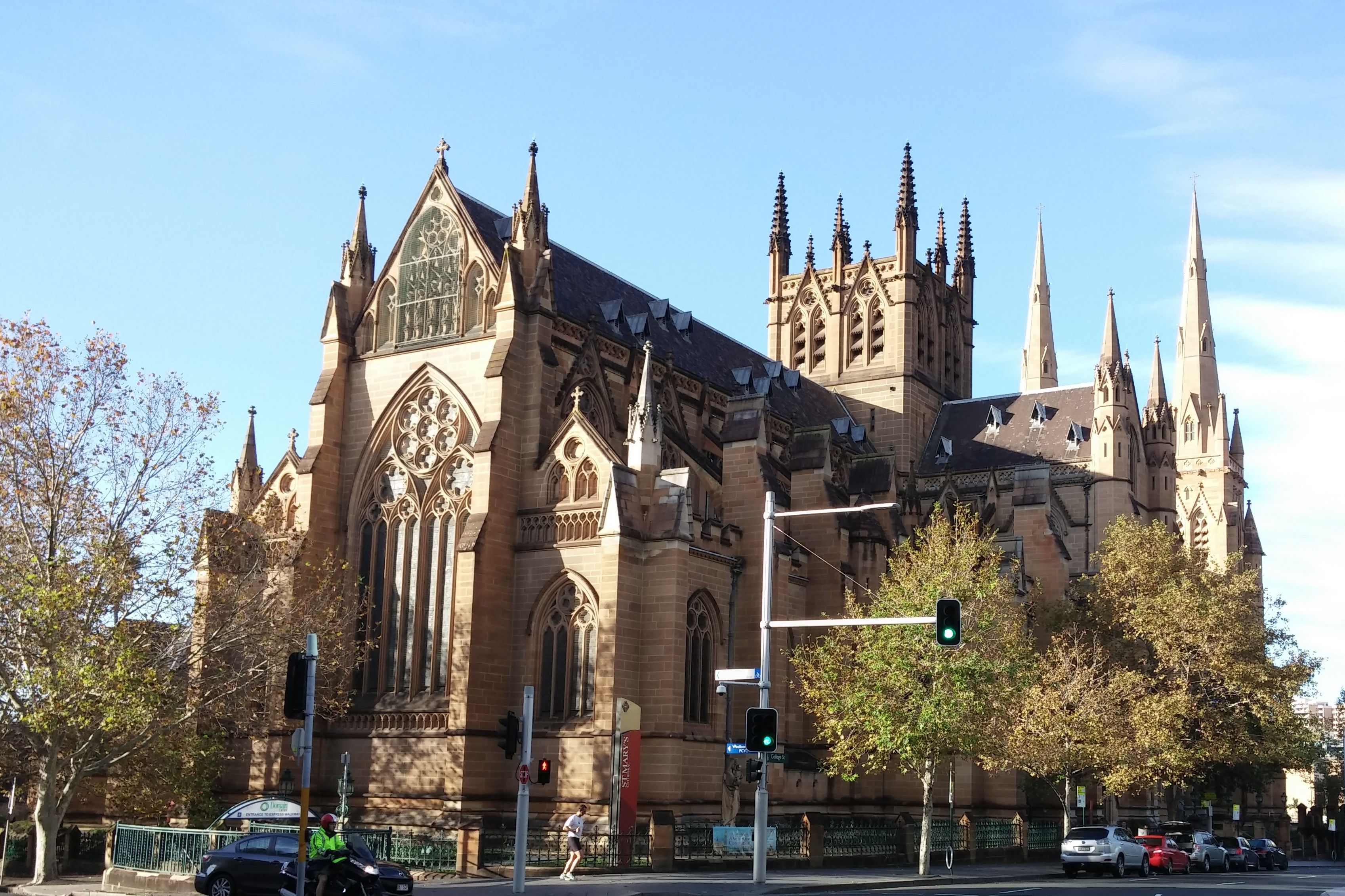 A view of St. Mary's Cathedral, Sydney from the north-west